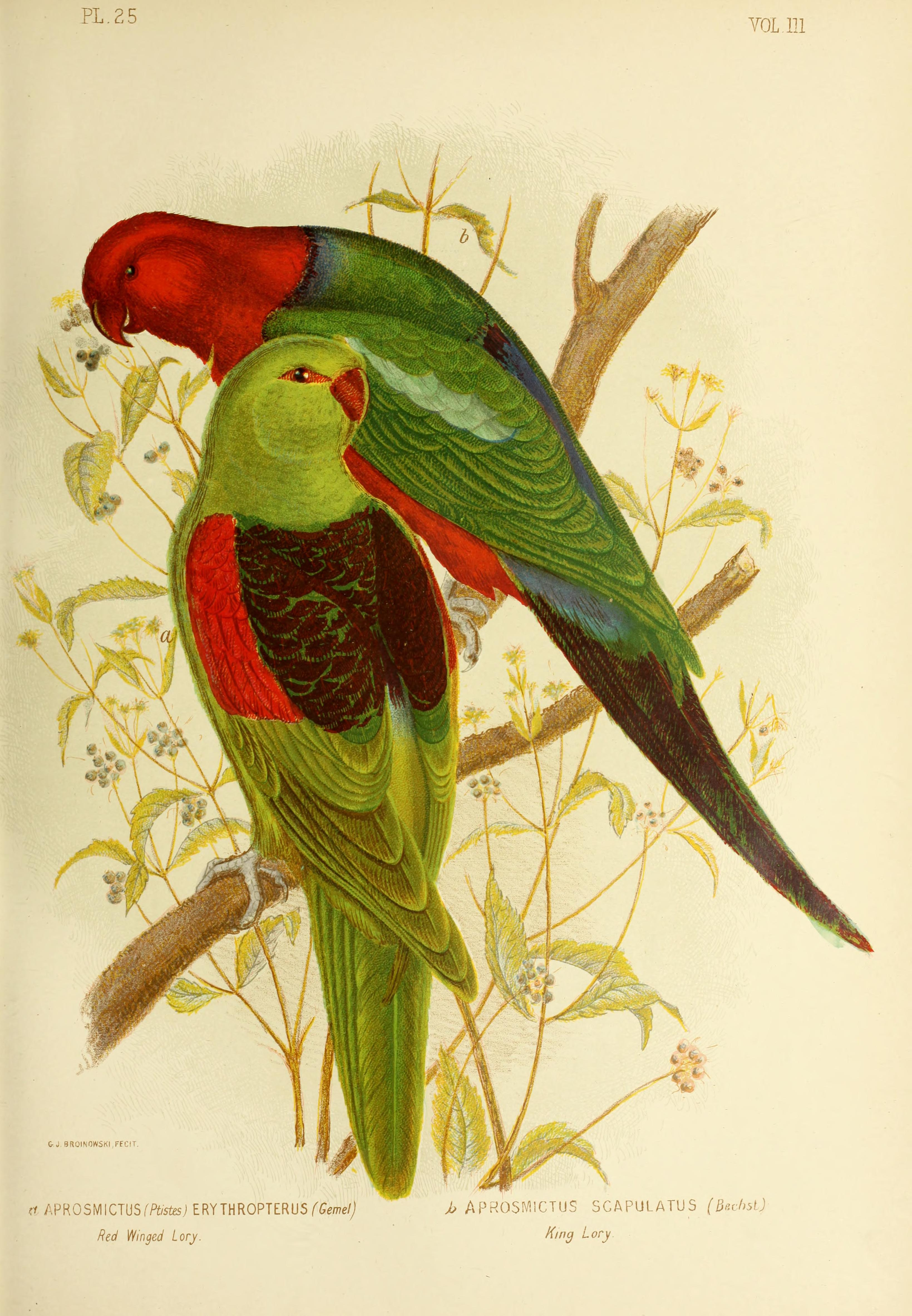 Title: The birds of Australia Year: 1890 (1890s) Authors: Broinowski, Gracius J. (Gracius Joseph), 1837-1913 Subjects: Birds Publisher: Melbourne (etc. ) C. Stuart & co. Text Appearing Before Image: PL. 25 vol. ni Text Appearing After Image: '